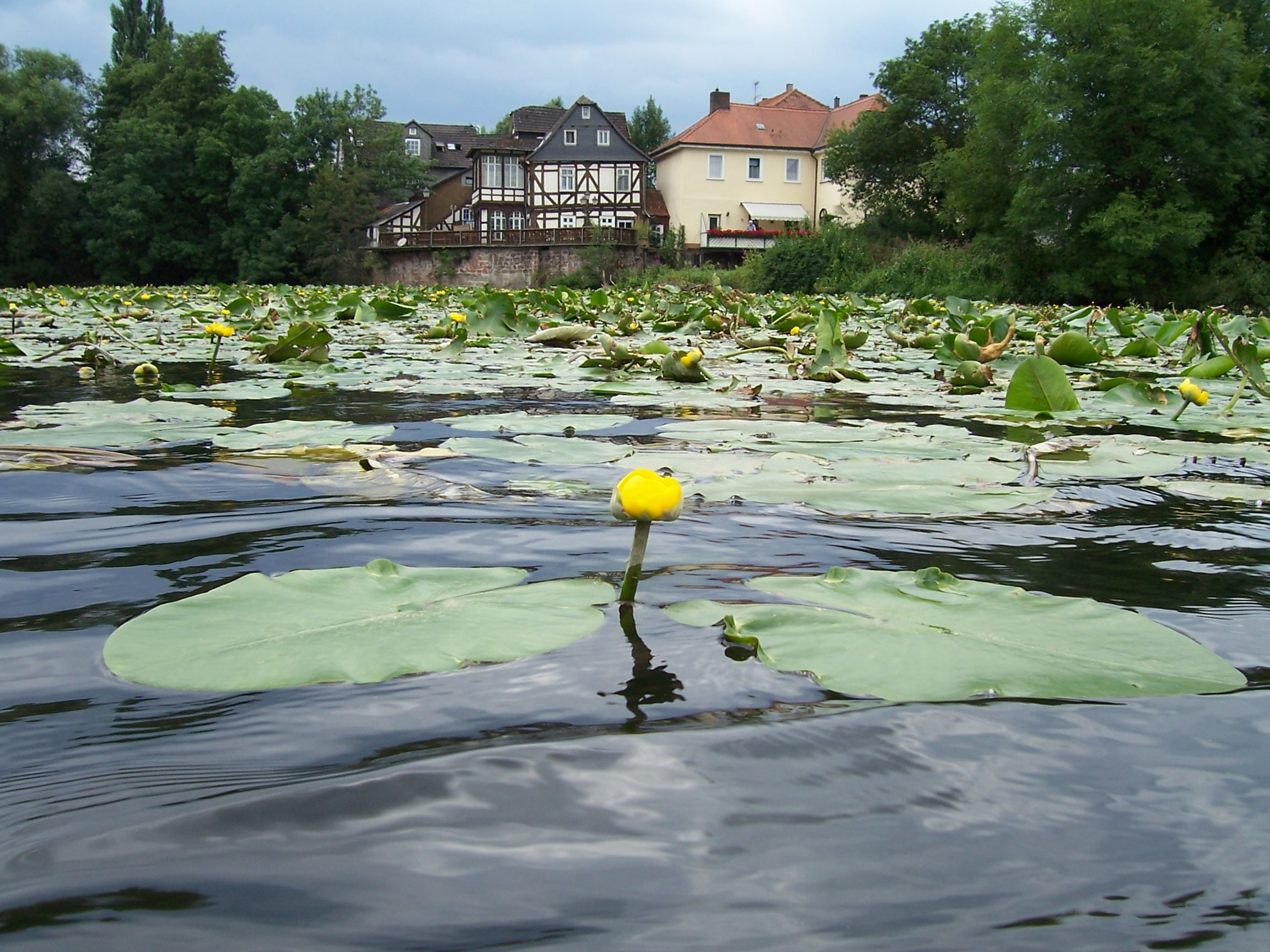 Nuphar lutea on river Lahn in Marburg near mill 'Grüner Mühle'. A ↓second photo:↓